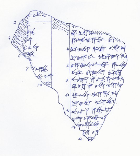 Example for a hittite cuneiform tablet with the "Deeds of Suppiluliuma I." from Hattusa (Bogazköy)